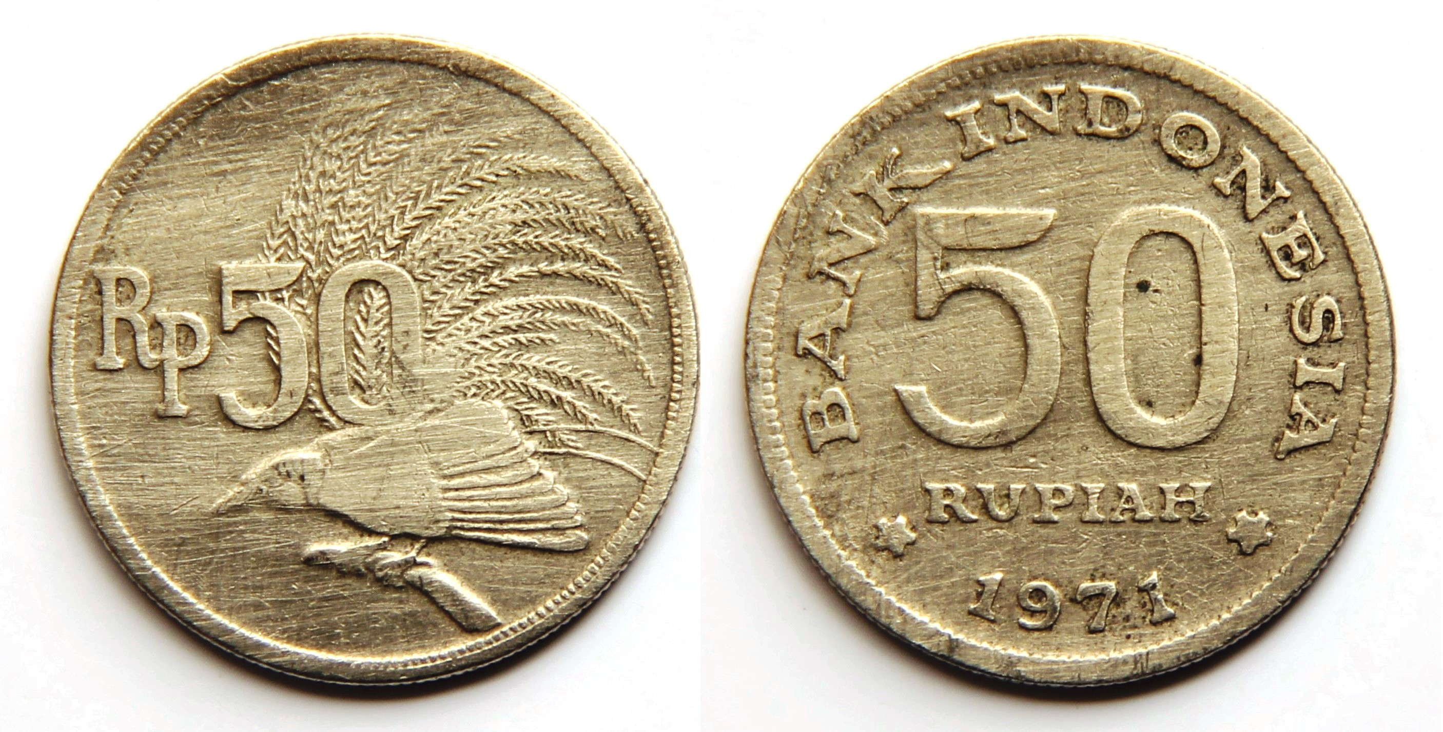 Face value: 50 Indonesian rupiah. Country: Indonesia. Year of minting: 1971. Metal: Copper-Nickel. Shape: Round. Obverse: Greater bird-of-paradise on a branch and face value. Reverse: Face value surrounded by country and year. Edge: Milled. Weight: 6.0 g. Diameter: 24 mm. Thickness: 1.7 mm. Total mintage: 1,035,435,000. Engraver: Not known. Comment: This coin was minted only in 1971. Monetization status: Demonetized. Data source: This webpage.